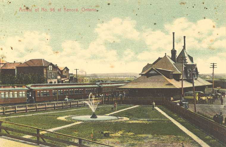 Colour postcard showing the arrival of train 96 at the Kenora Railway station, showing the station garden.